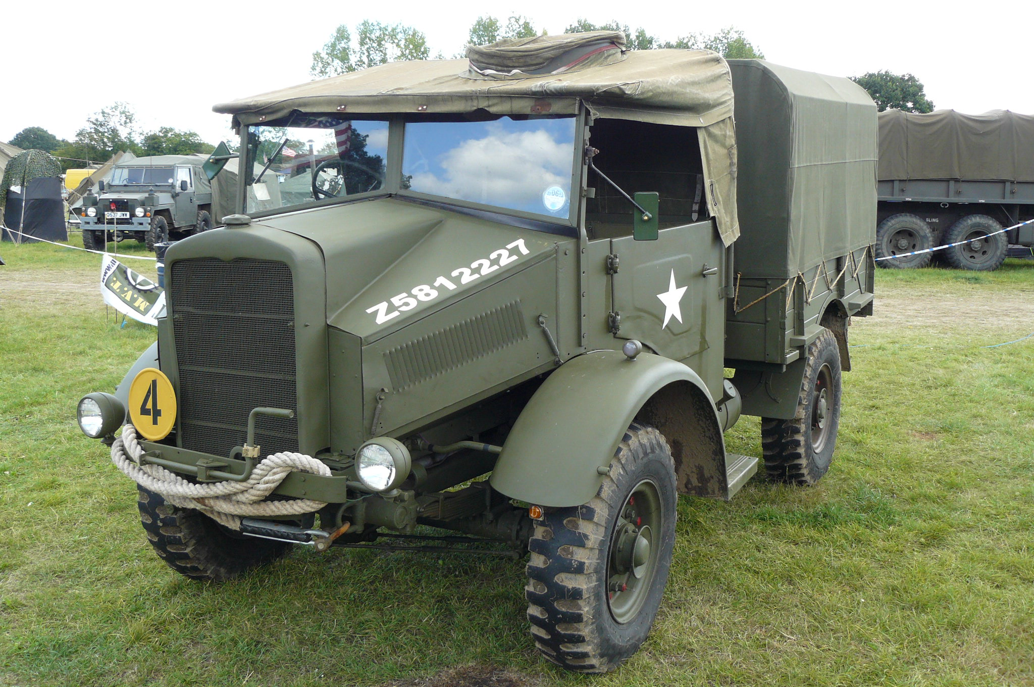 Morris-Commercial C8 GS, light military truck, used by British forces in Germany just after WW2. Seen at War & Peace show 2011, England